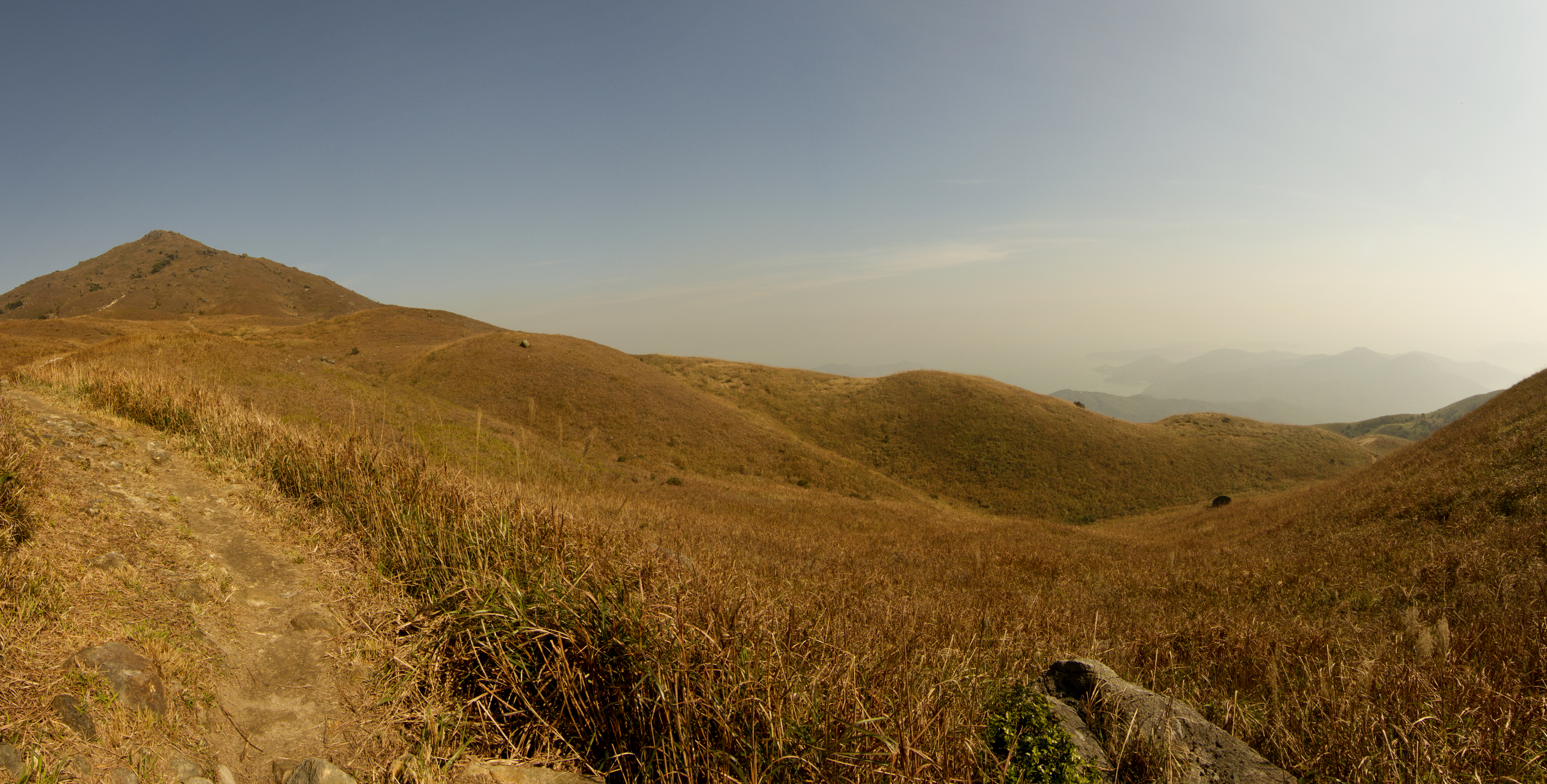 Montane grassland during the dry season (December) in Lantau Country Park, Lantau Island, Hong Kong SAR, China.